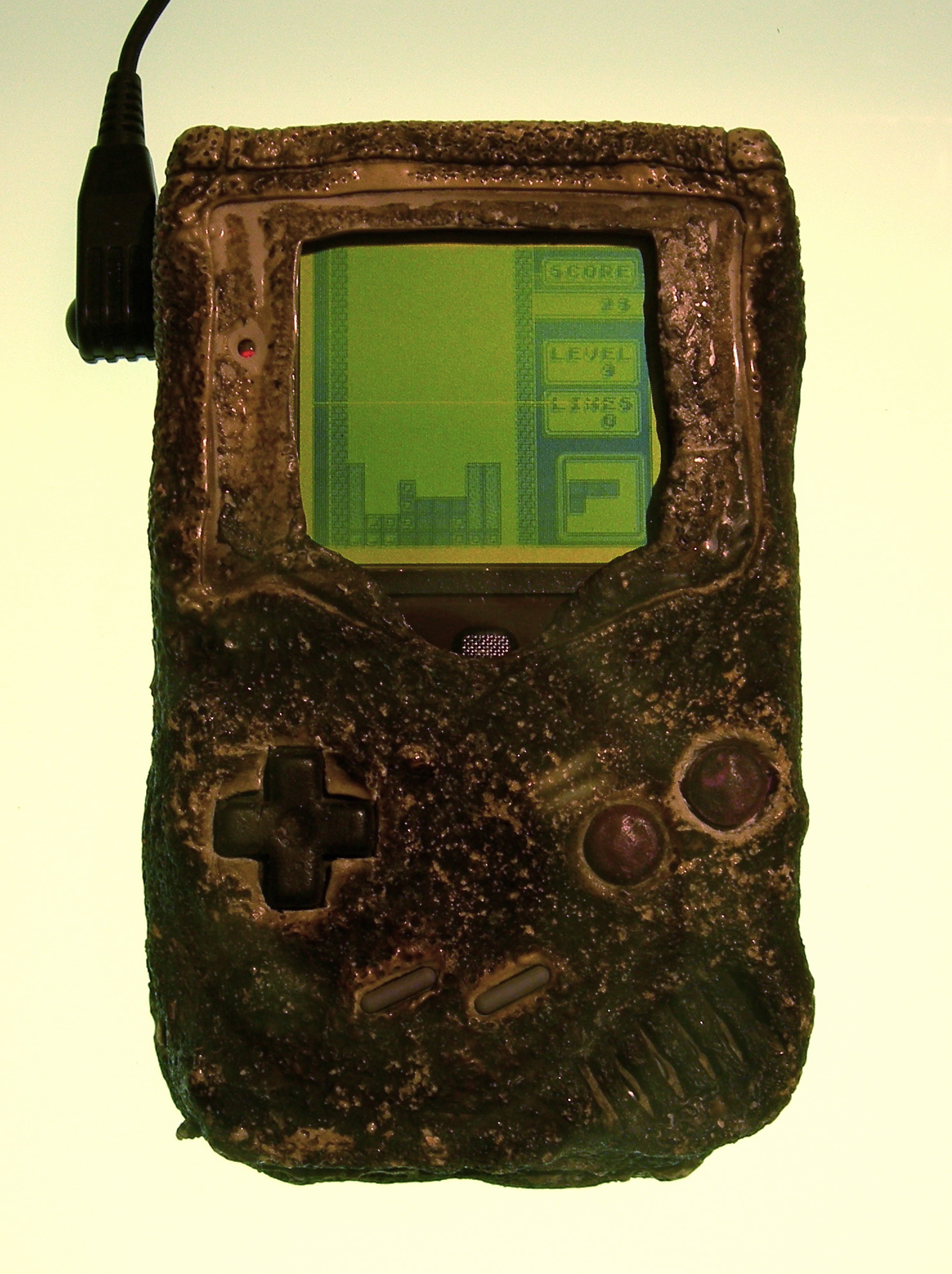 Original Game Boy damaged in the Gulf War 1991. It still works and is now on display at the Nintendo World Store in New York. Everything is original. The screen was never replaced, as reported by Nintendo Power.